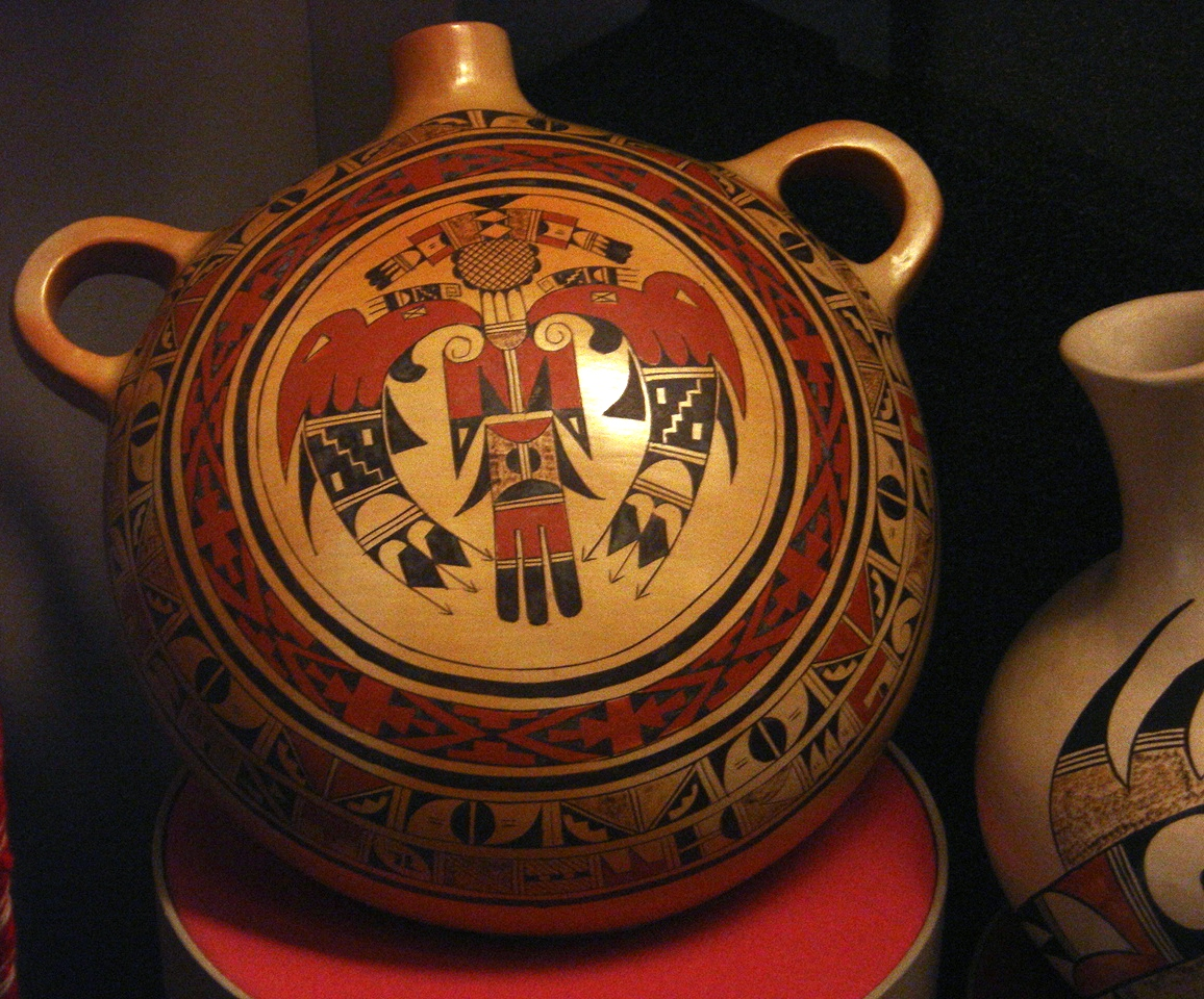 University of Arizona